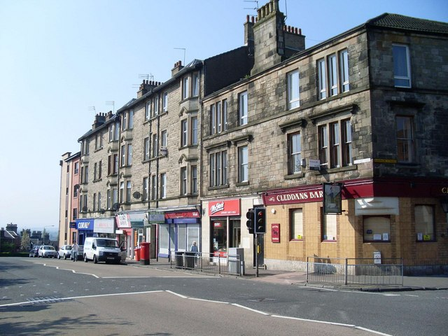 Tenements on Kilbowie Road, Clydebank The building to the right in the image must be the oldest in the Kilbowie area - the date stone reads 1881, in an area that was pretty much ravaged by the Blitz of 1941.